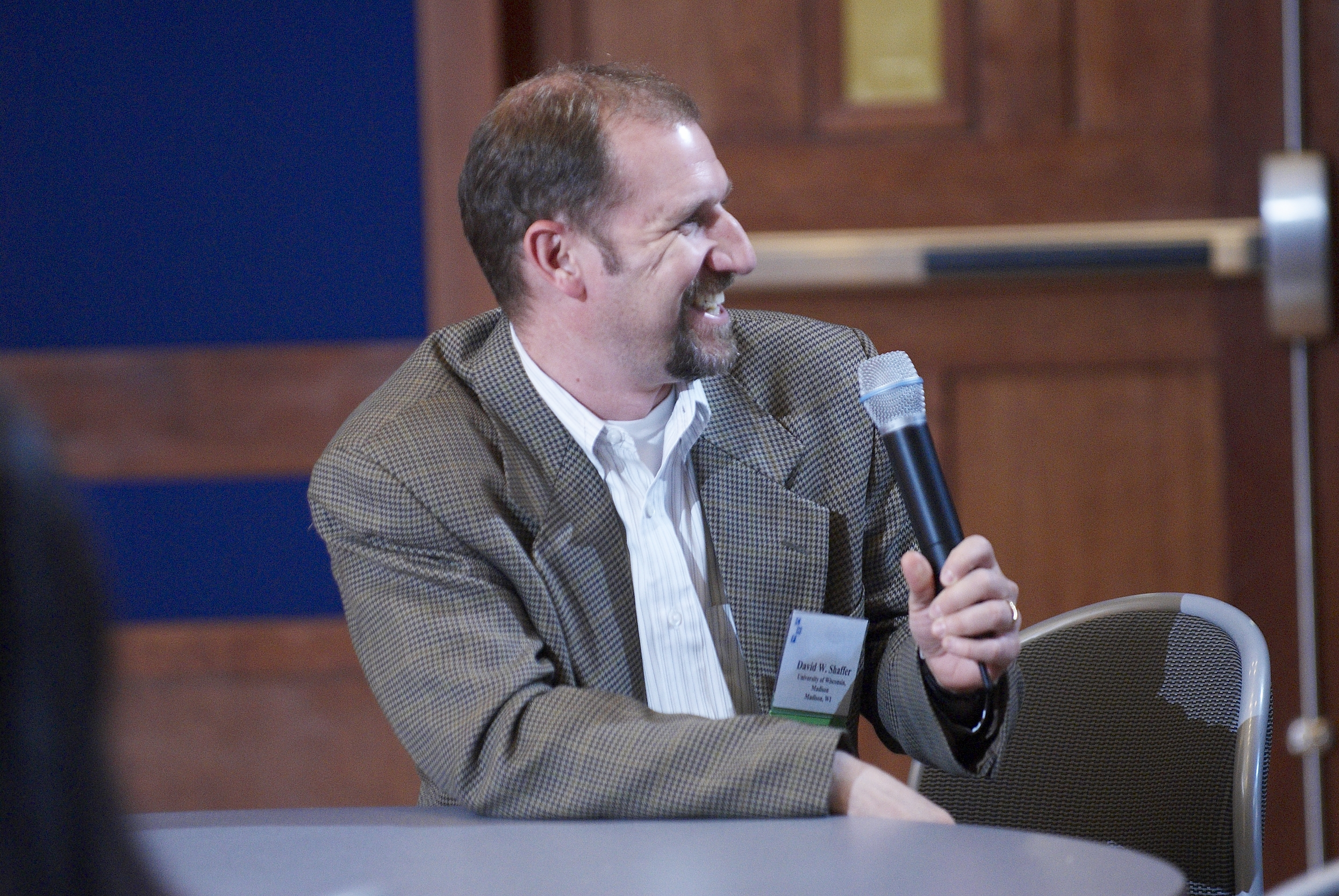 Photograph of David Williamson Shaffer, speaker at LISE 2008 (Leadership Initiative in Science Education, 8th Annual Conference), "New Media and Technology in Science Education", April 28-29, 2008, organized by the Chemical Heritage Foundation.